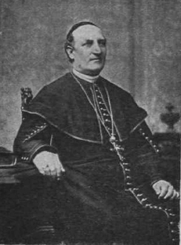 Arnold Ipolyi